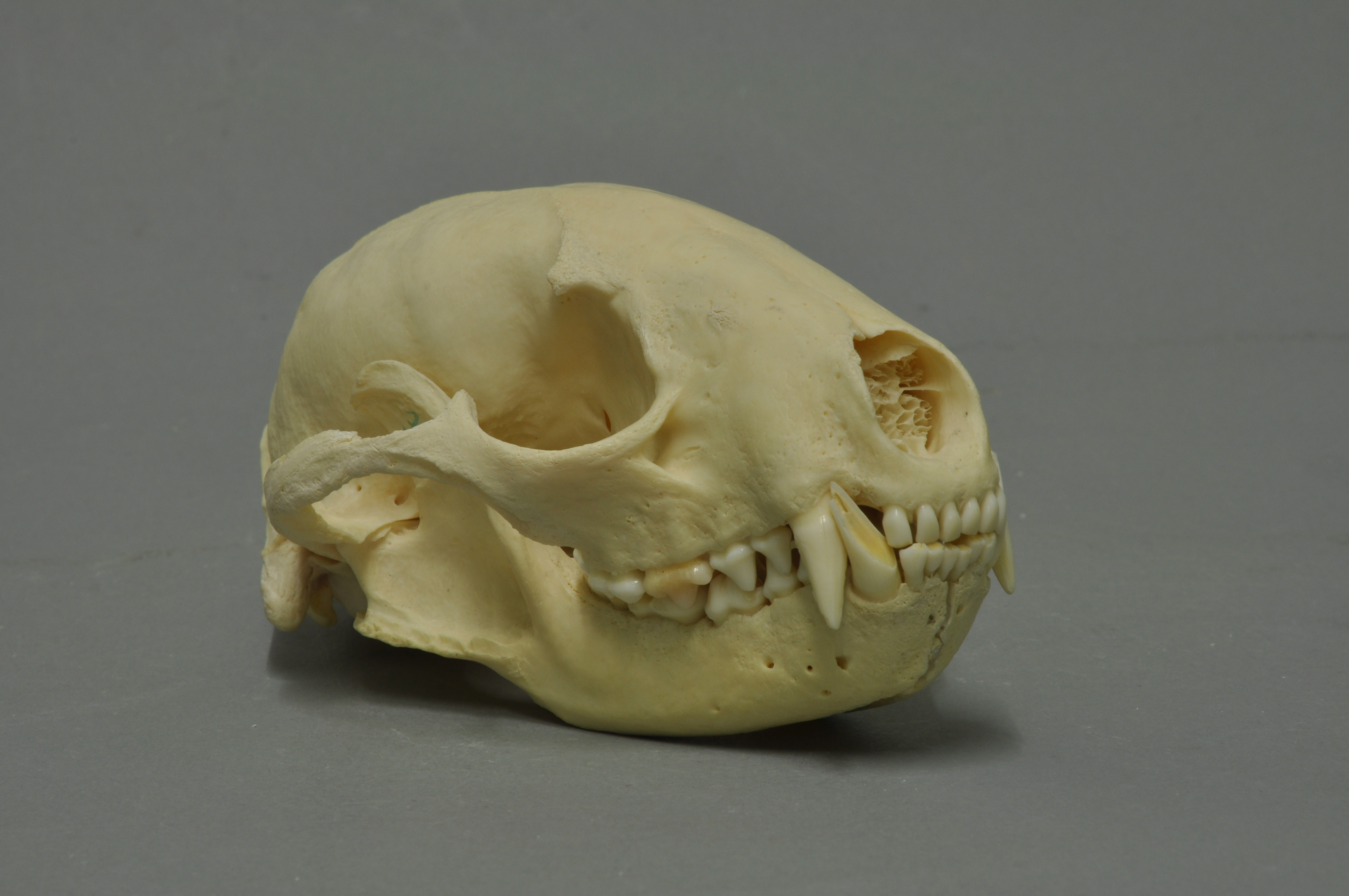 Raccoon Procyon lotor, skull, Coll. Museum Wiesbaden